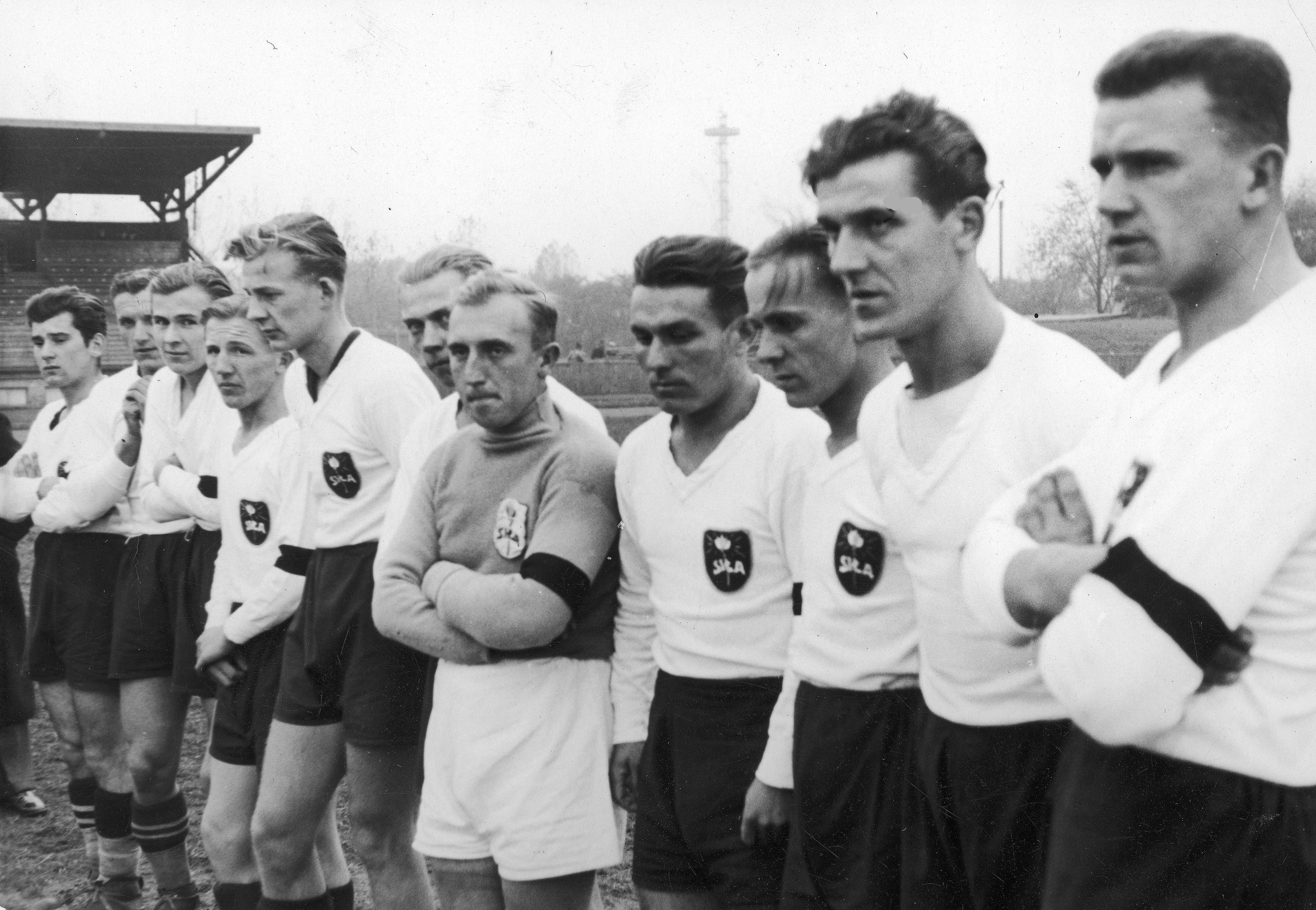 Football players of the Polish Sport Club Siła Trzyniec during the match against Chorzów in Katowice